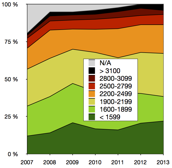 Change of the number of countries in each GPI class from 2007-2011.